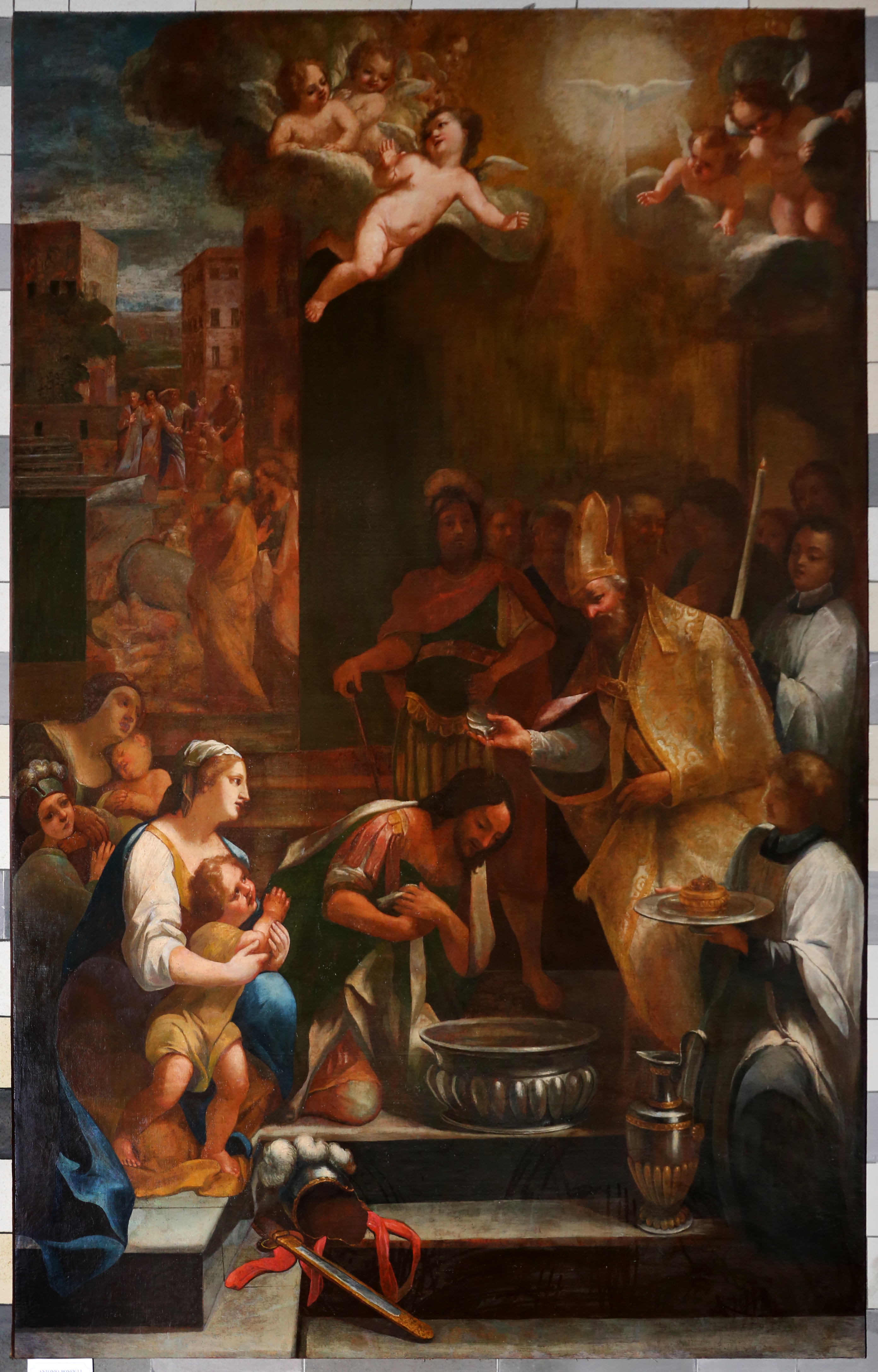 Basilica of San Francesco (Siena)